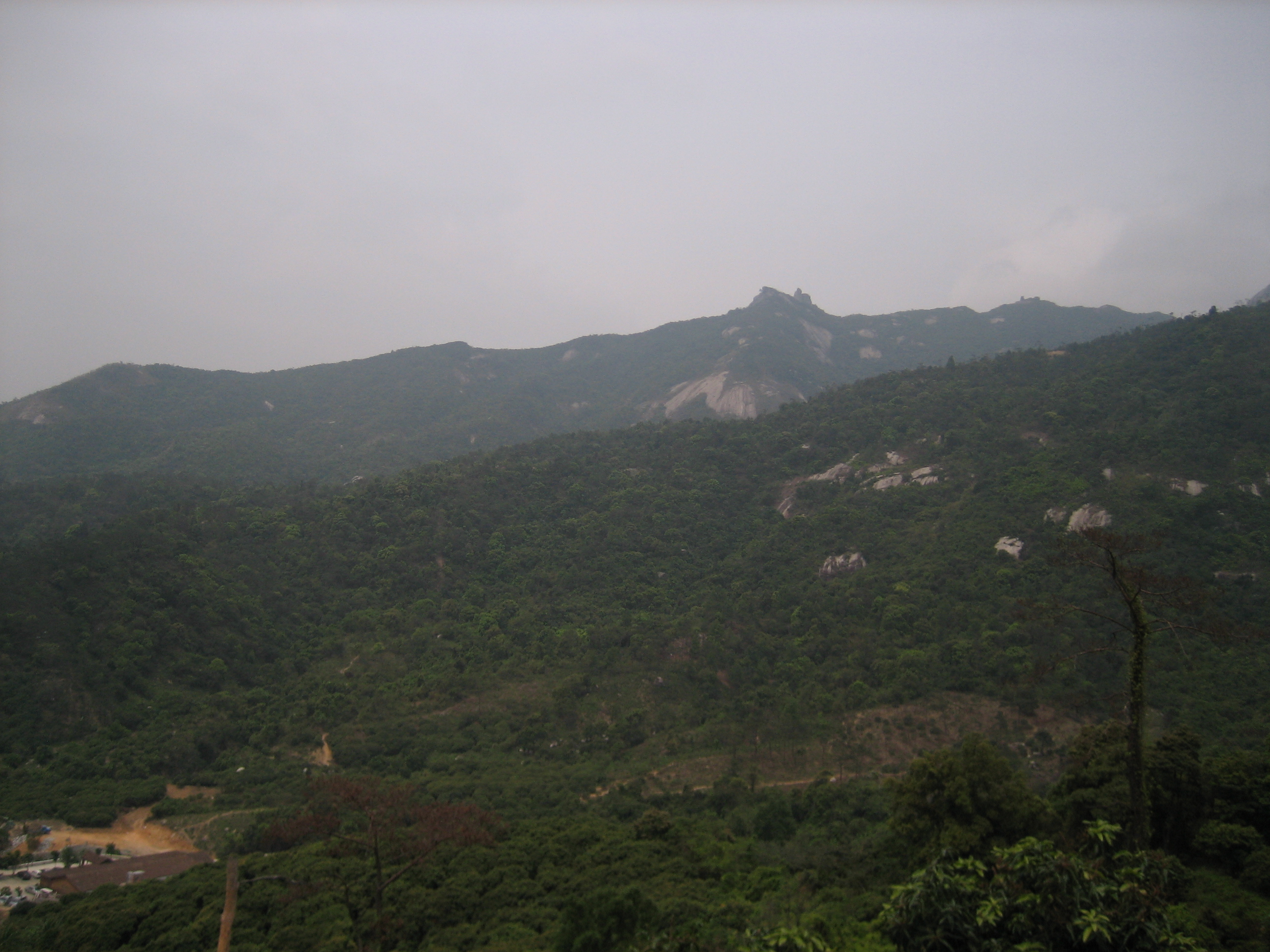 Luofu Shan